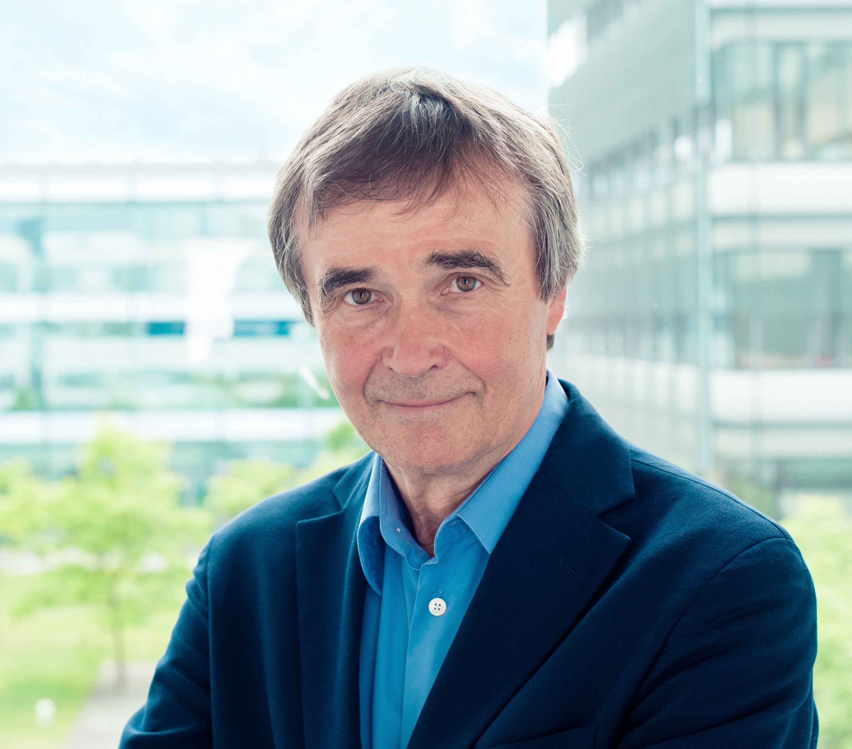 Prof. Kai Simons